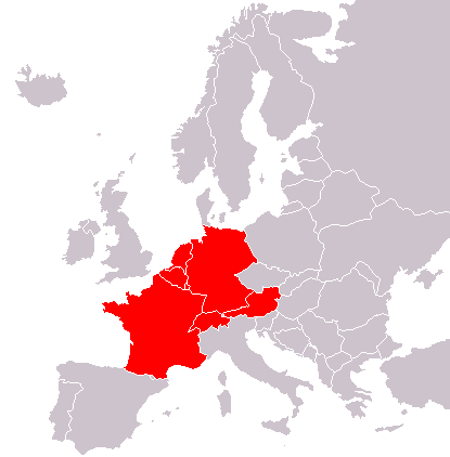 Western Europe after UN Statistics Division